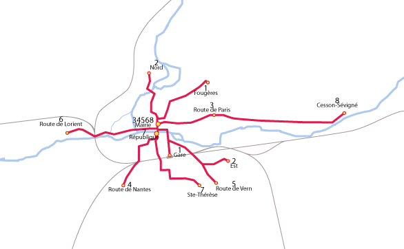 Bus system map in Rennes, 1954